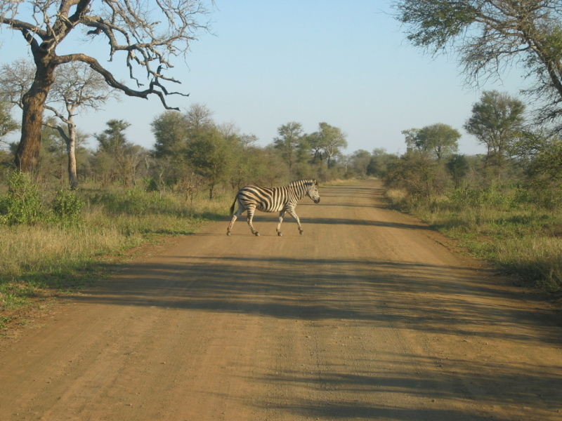 Zebra in Kruger National Park in South Africa.